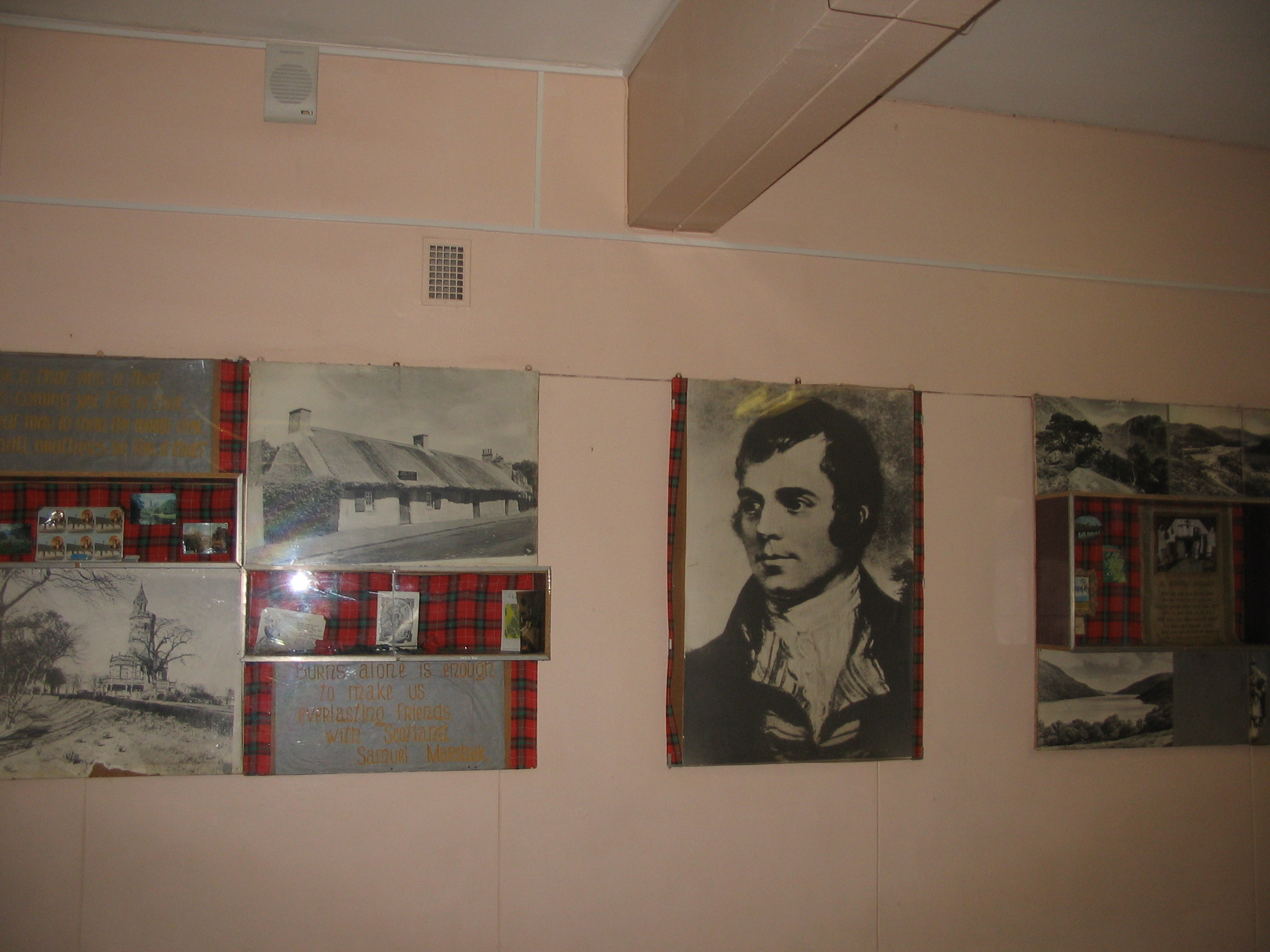 Izmailovo Gymnazium, Moscow - Robert Burns Hall